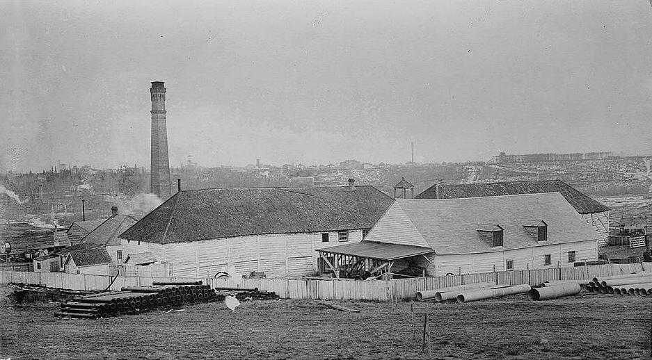 Fort Edmonton, Alberta, Canada.